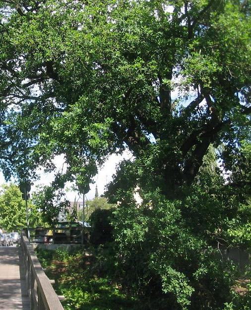 Natural Monument Pedunculate Oak in Tiefwerder. Tiefwerder is a former village, founded in 1816, in Berlin-Spandau and an ait in Berlin-Wilhelmstadt from river Havel. The Tiefwerder Wiesen (meadows) are a protected area (german: Landschaftsschutzgebiet) and Berlins last natural flood plain and last spawn-area for the Northern pike.